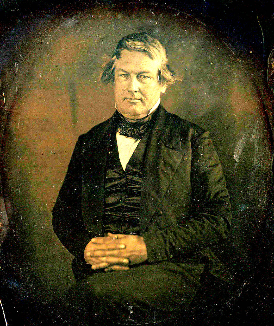 Daguerreotype portrait of politician Millard Fillmore by photographer Mathew Brady, taken at the United States Capitol at Washington, D.C., March 1849. Courtesy of the Beinecke Rare Book & Manuscript Library, Yale University.